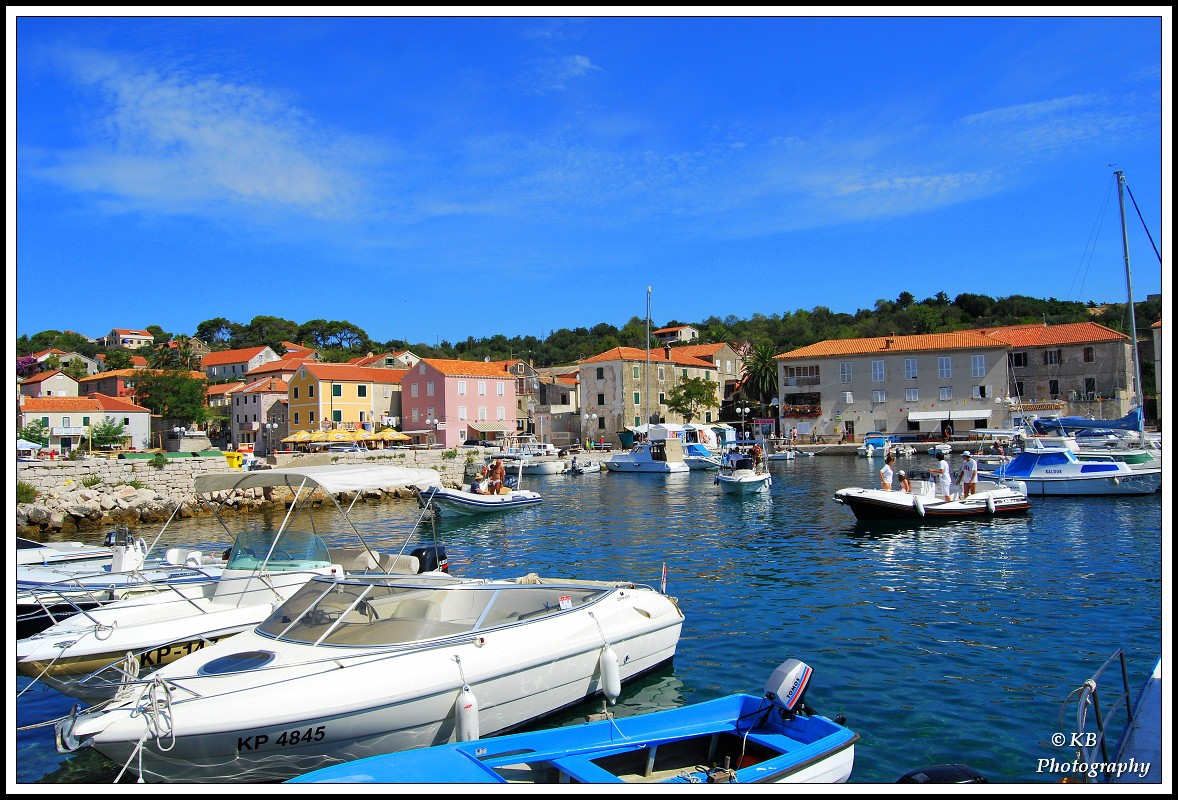 Dugi otok